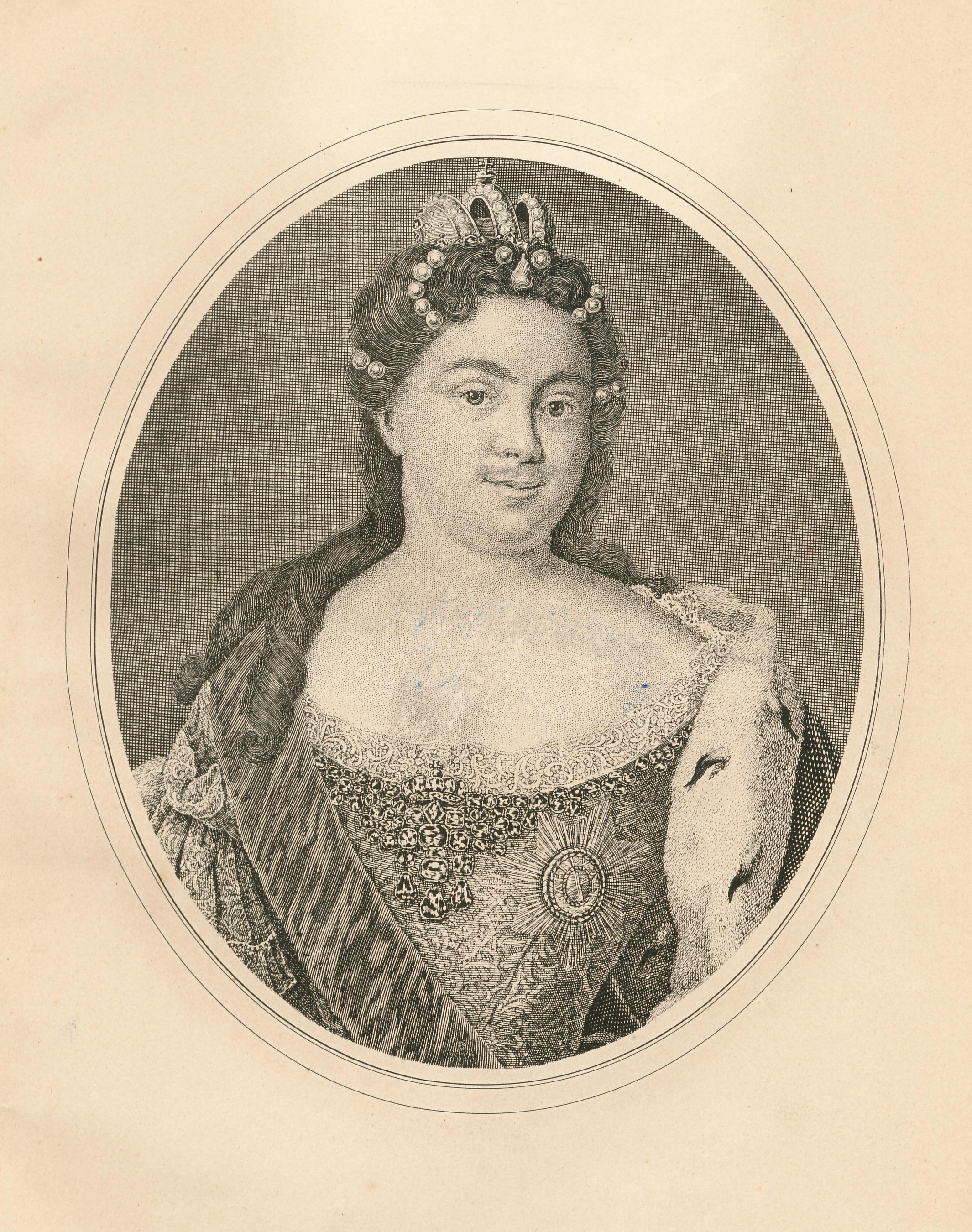 Catherine I of Russia from russian magazine Russkaja Starina. 1880.